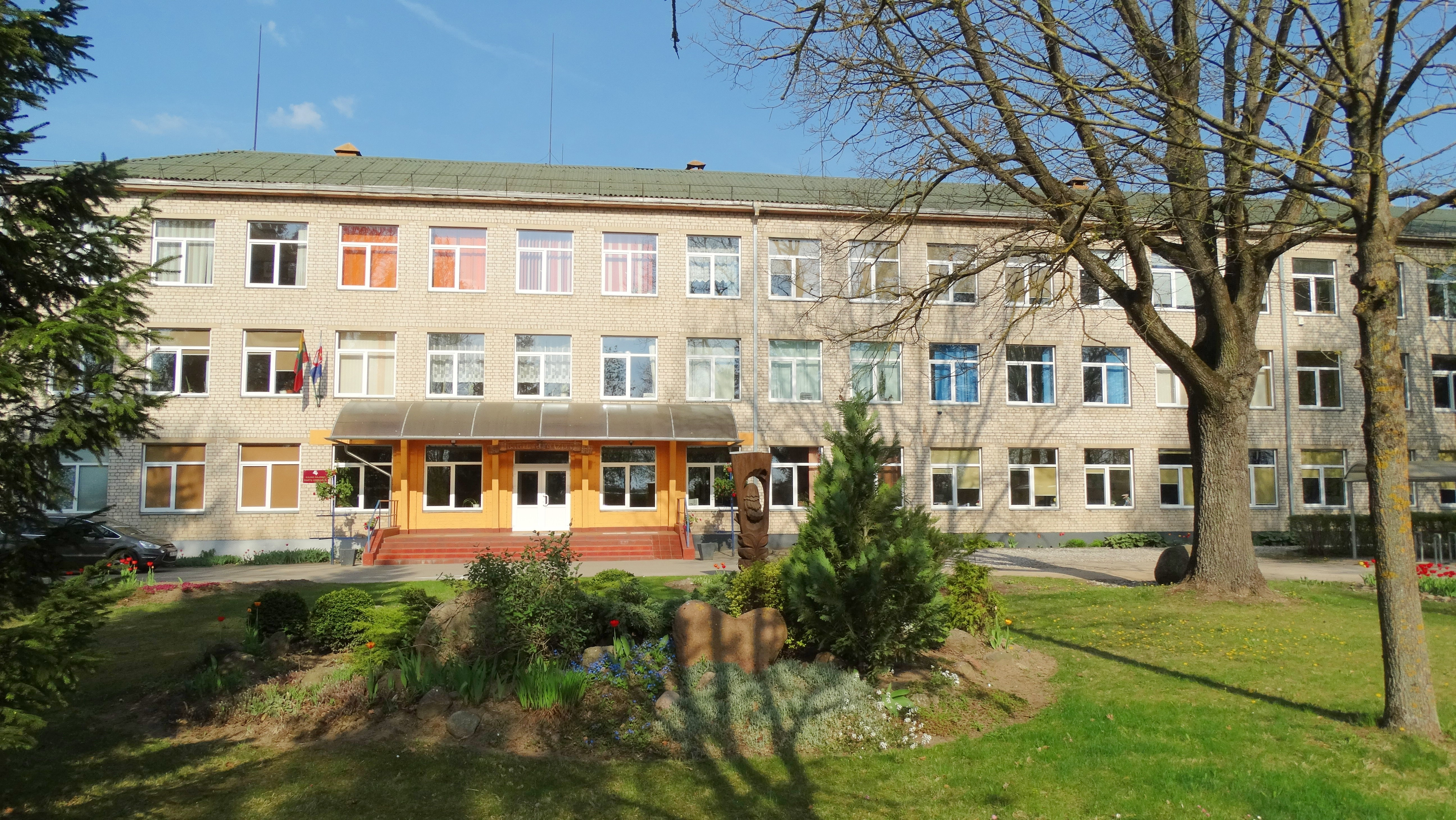 Gymnasium, Babtai, Kaunas district, Lithuania